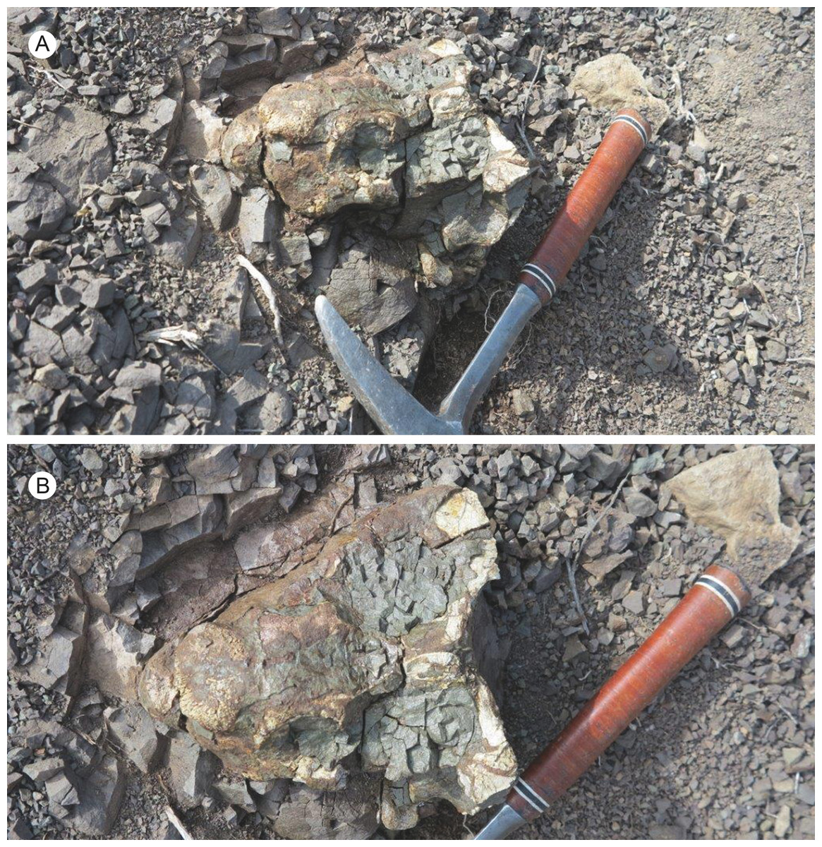 Figure 1: SAM-PK-K11235, holotype of Bulbasaurus phylloxyron gen. et sp. nov., in situ at the type locality of Driekoppe, Vredelus, Fraserburg, Western Cape Province, South Africa. (A) Specimen in left semi-lateral view; (B) specimen in dorsal view.